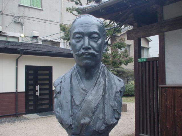 Mori Ogai bust at his house in Kokura, Kitakyushu Taken and upoaded by Ian Ruxton (Historian)